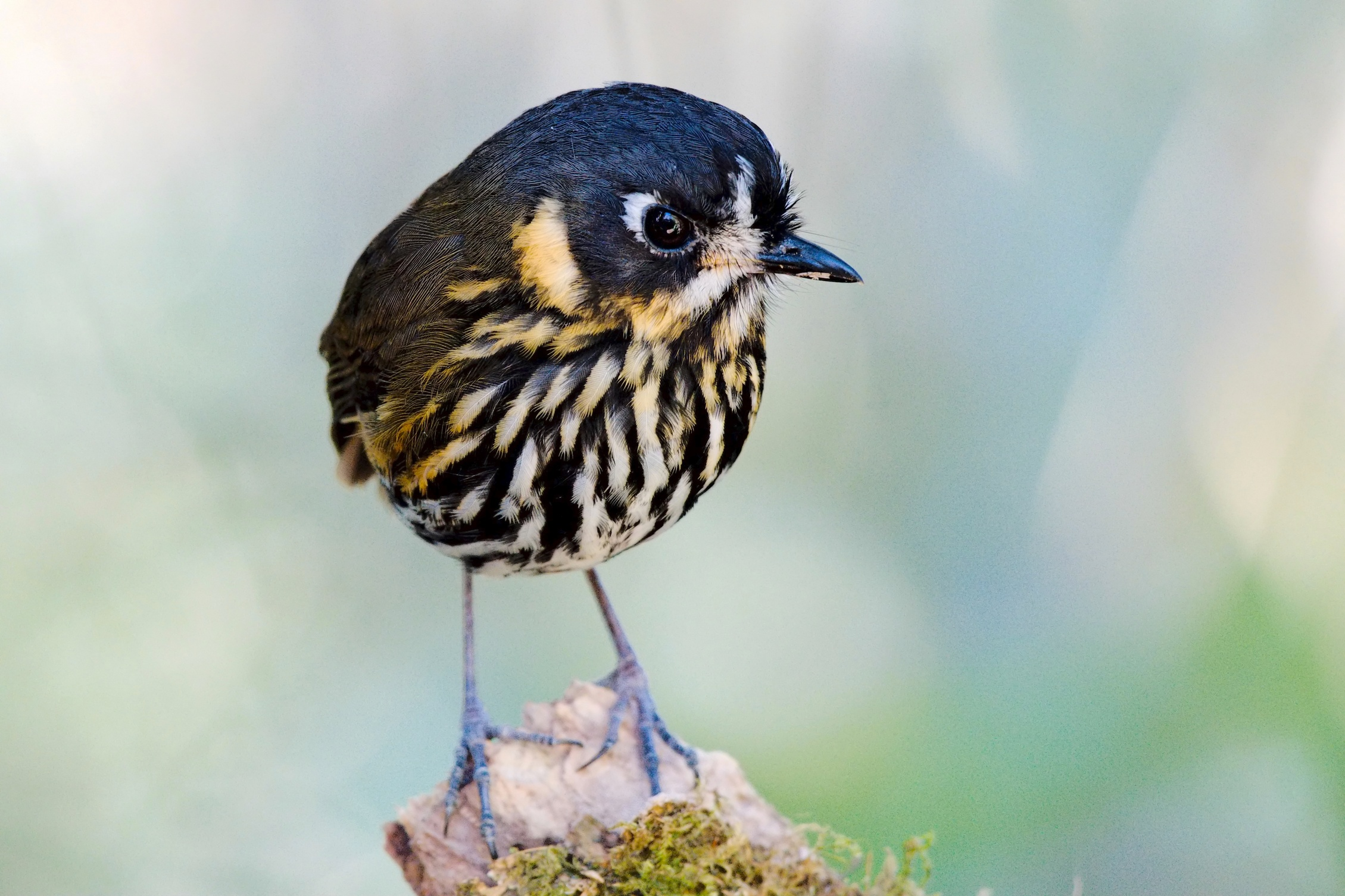 Crescent-faced Antpitta at Hacienda El Bosque, Colombia